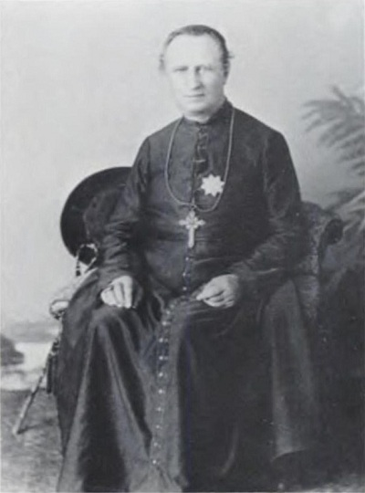 Herman Koeckemann, formally Bernard Hermann Koeckemann, SS.CC. (10 January 1828 – 22 February 1892), served as the second vicar apostolic of the Vicariate Apostolic of the Sandwich Islands – now the Roman Catholic Diocese of Honolulu – from 1881 to 1892.